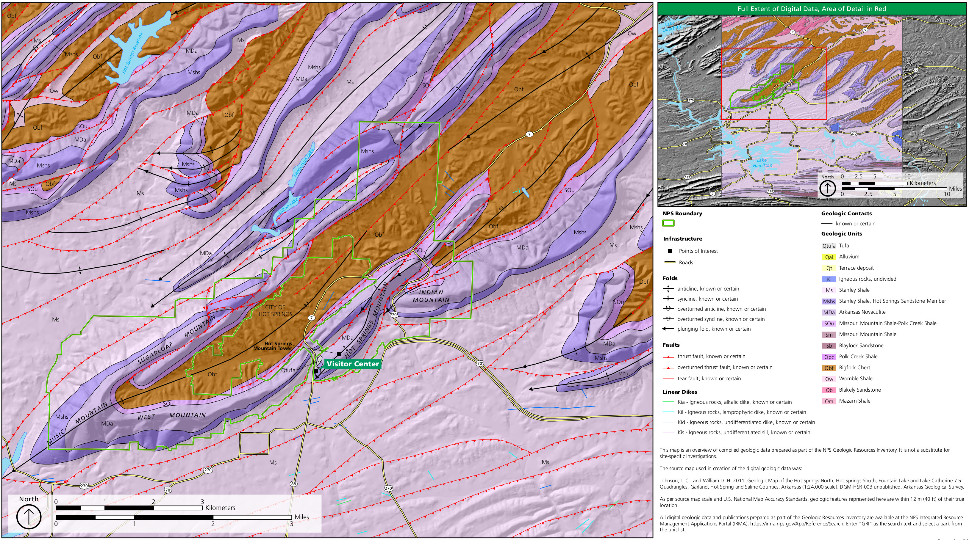 The geologic map of Hot Springs National Park zooms in on the national park lands while also showing the bedrock, folds, faults, and dikes in the surrounding region in Arkansas.